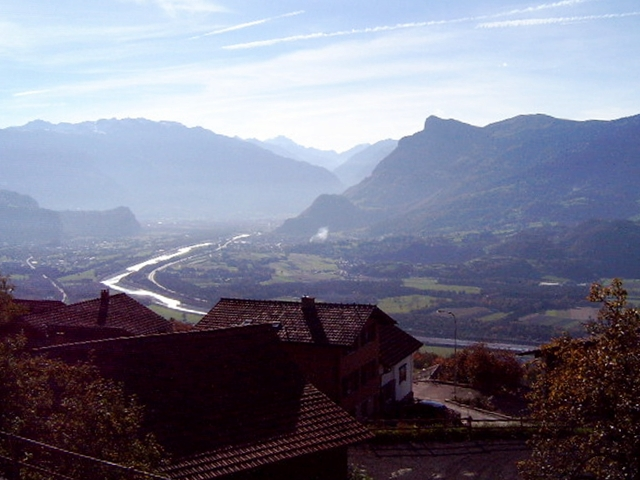 Alpine Rhine, view from Triesenberg in Liechtenstein